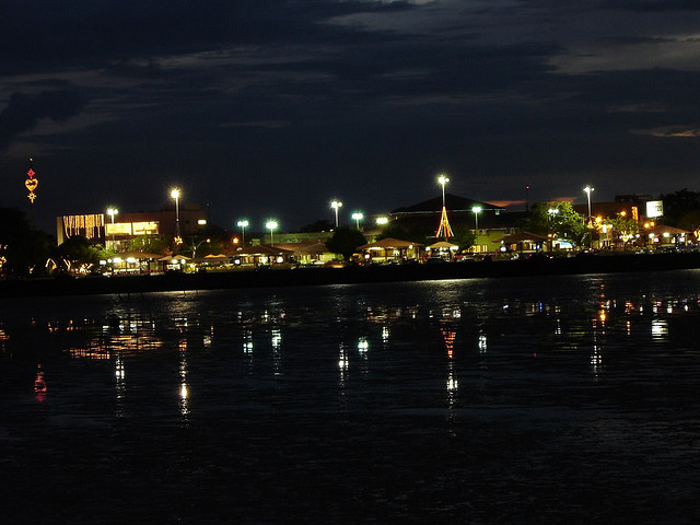 Night in Macapá, Amapá, Brazil.